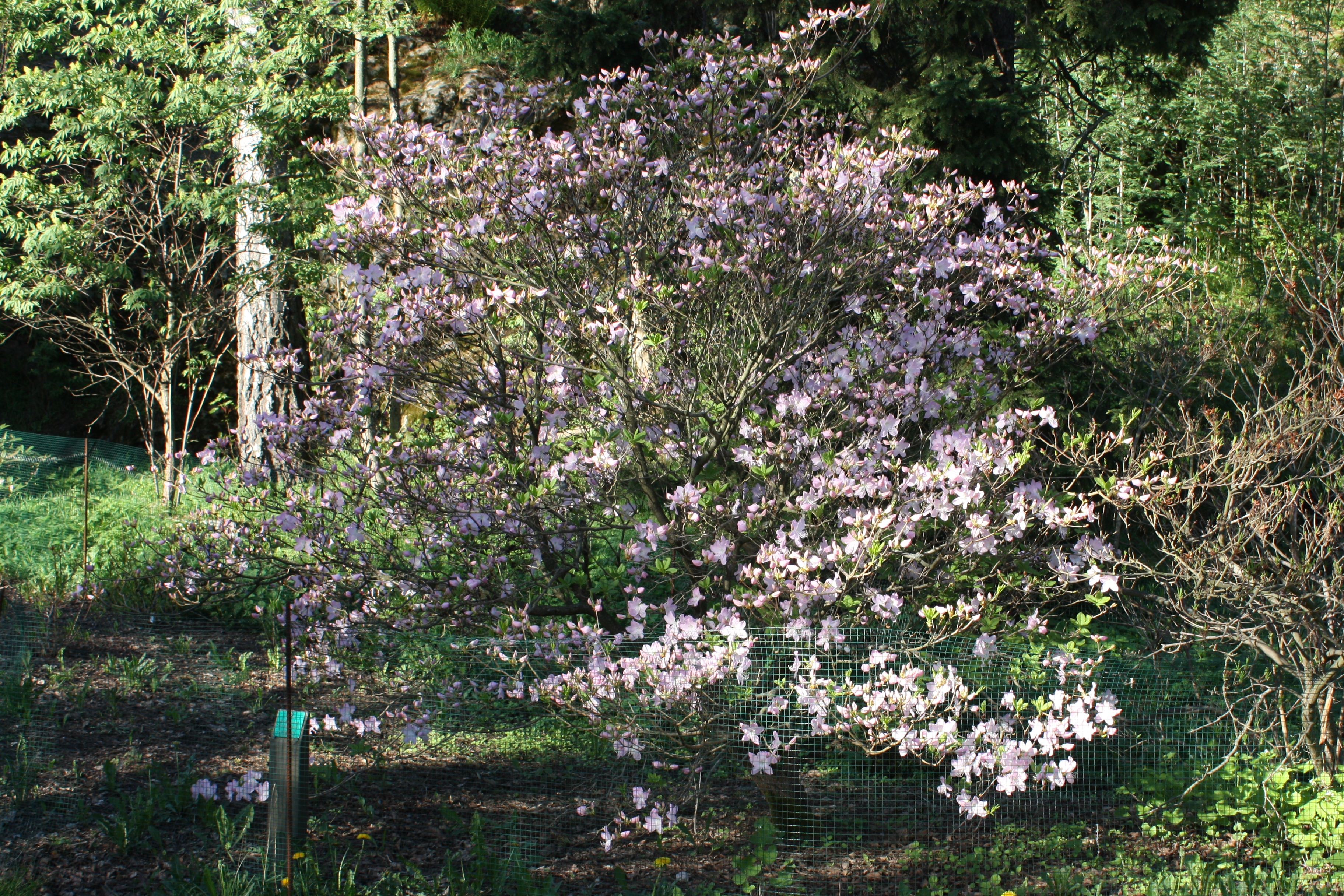 Royal Azalea, Rhododendron schlippenbachii in Meilahti Arboretum in Helsinki, Finland